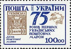 Stamp of Ukraine